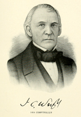 John C. Wright, New York State Comptroller, 1852-1853 Other information Originally from Roberts, James A.; _A Century in the Comptroller's Office, State of New York, 1797 to 1897_; Albany NY, James B. Lyon; 1897. Digitized by Richard J. Shiffer.